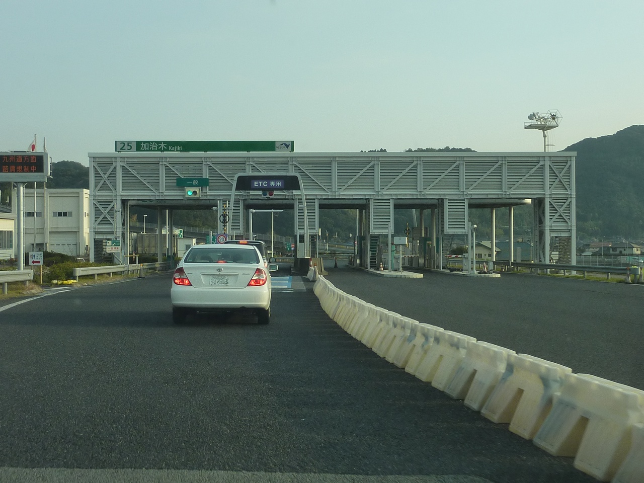 The Toll Plaza at Kajiki Interchange of Kyushu and Higashi-Kyushu Expressway in Aira City, Kagoshima Prefecture, Japan.